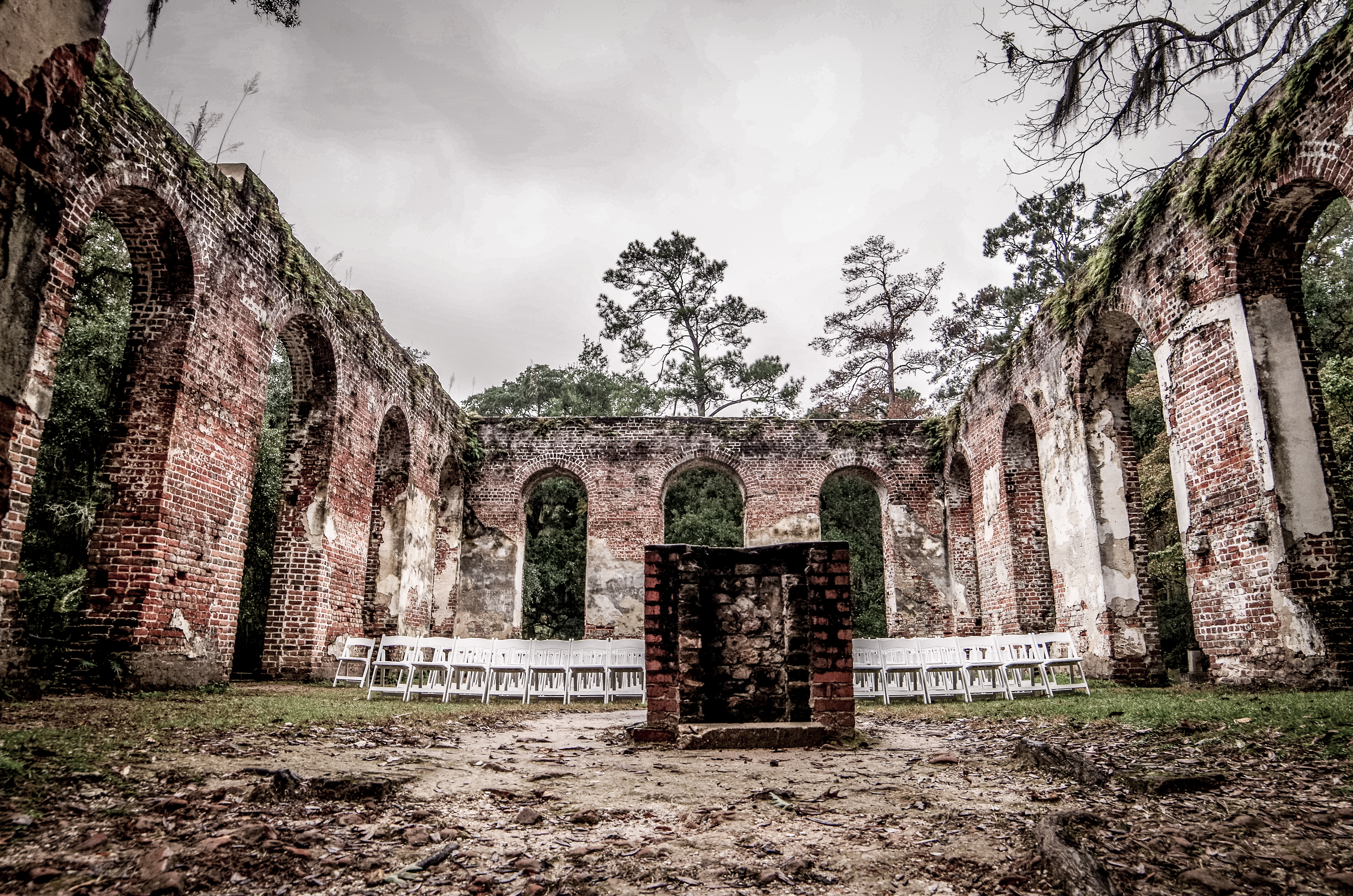 Old Sheldon Church Ruins 001